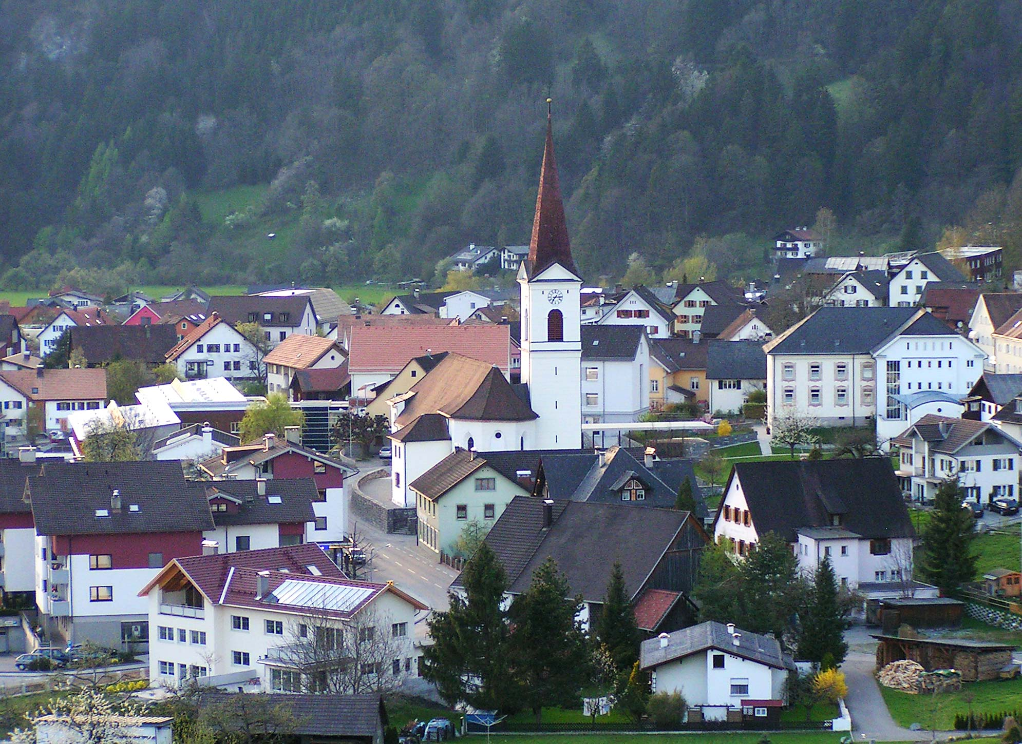 Core of Nüziders, a village in Vorarlberg, Austria